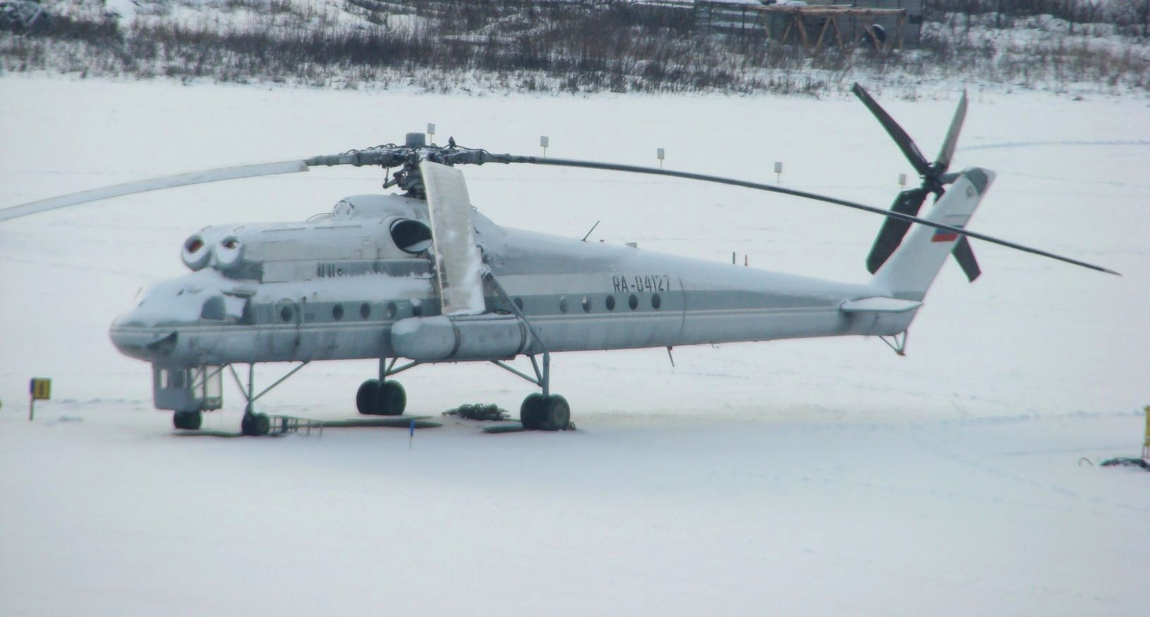 Mil Mi-10 (RA-04127) helicopter in Moscow.